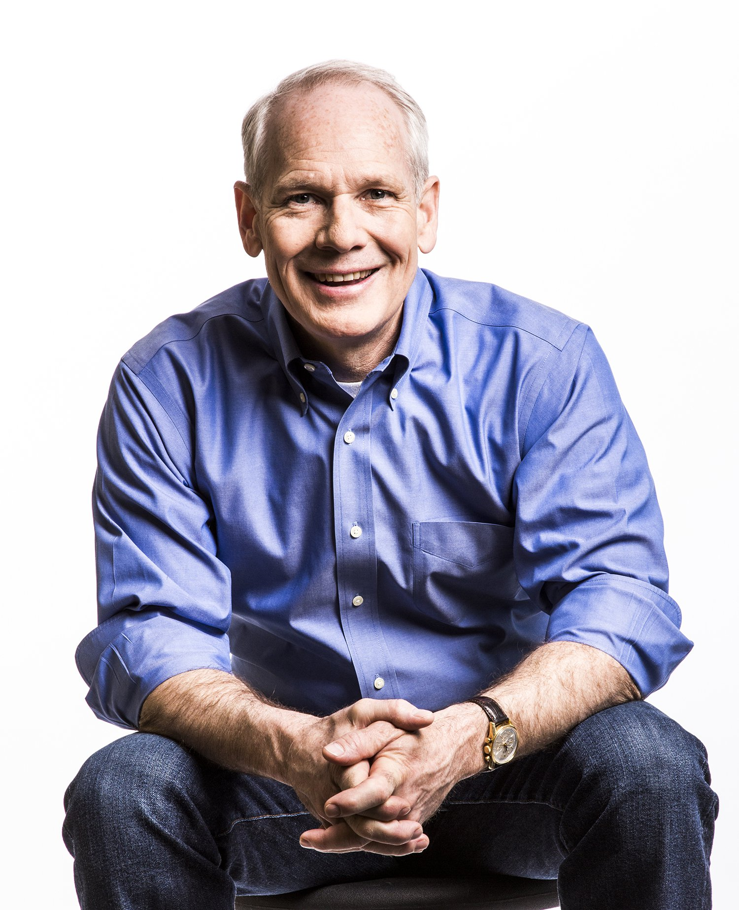 Kurt DelBene in 2015